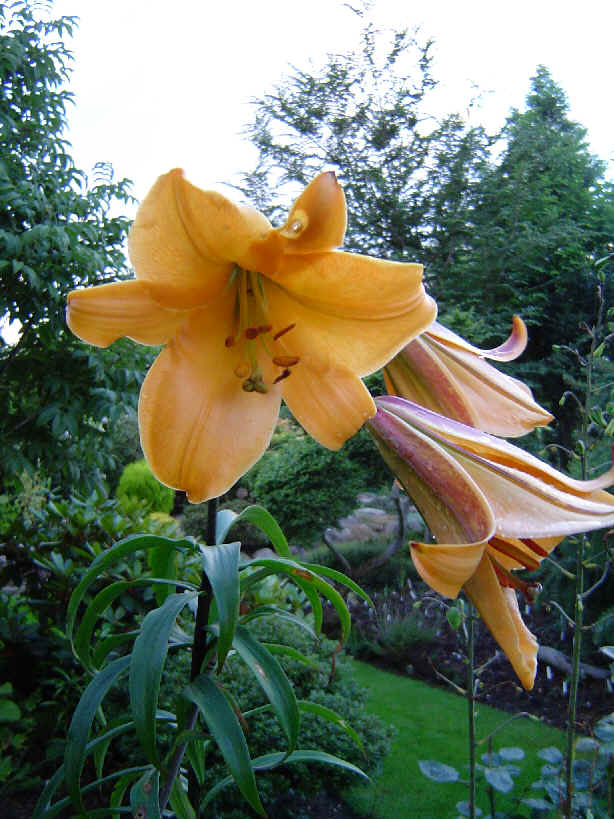 Lilium Hybrid 'African Queen' aurelian hybrid